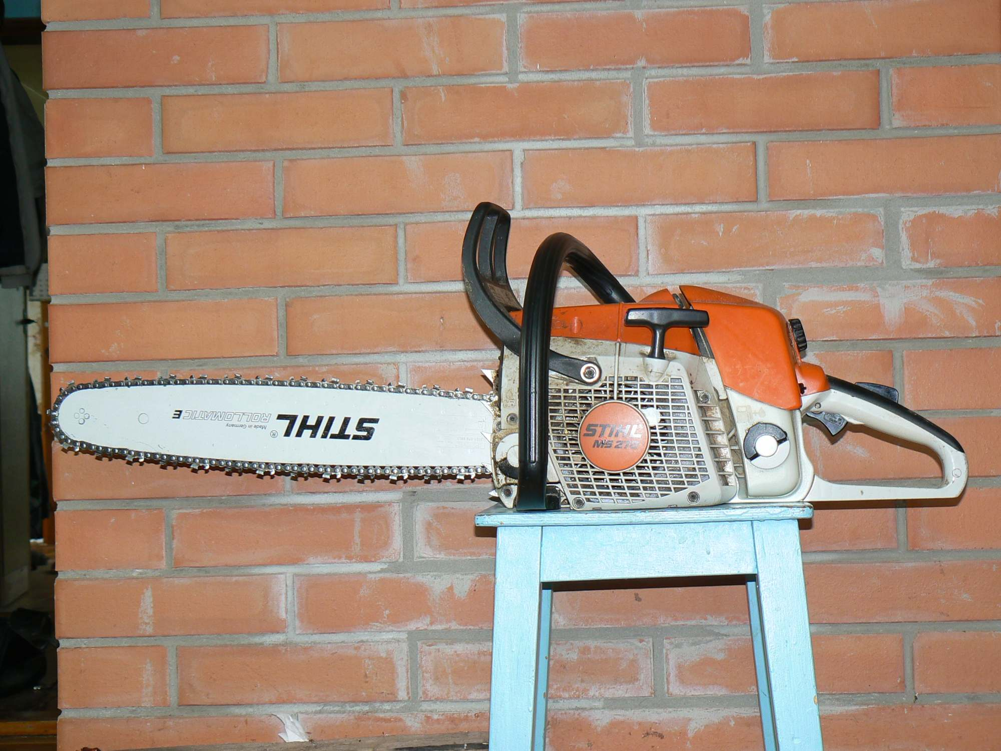 2-stroke 50cc gasoline chainsaw with 45 cm saw-blade